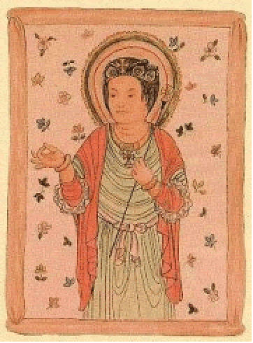 Nestorian Mongolian Bishop.